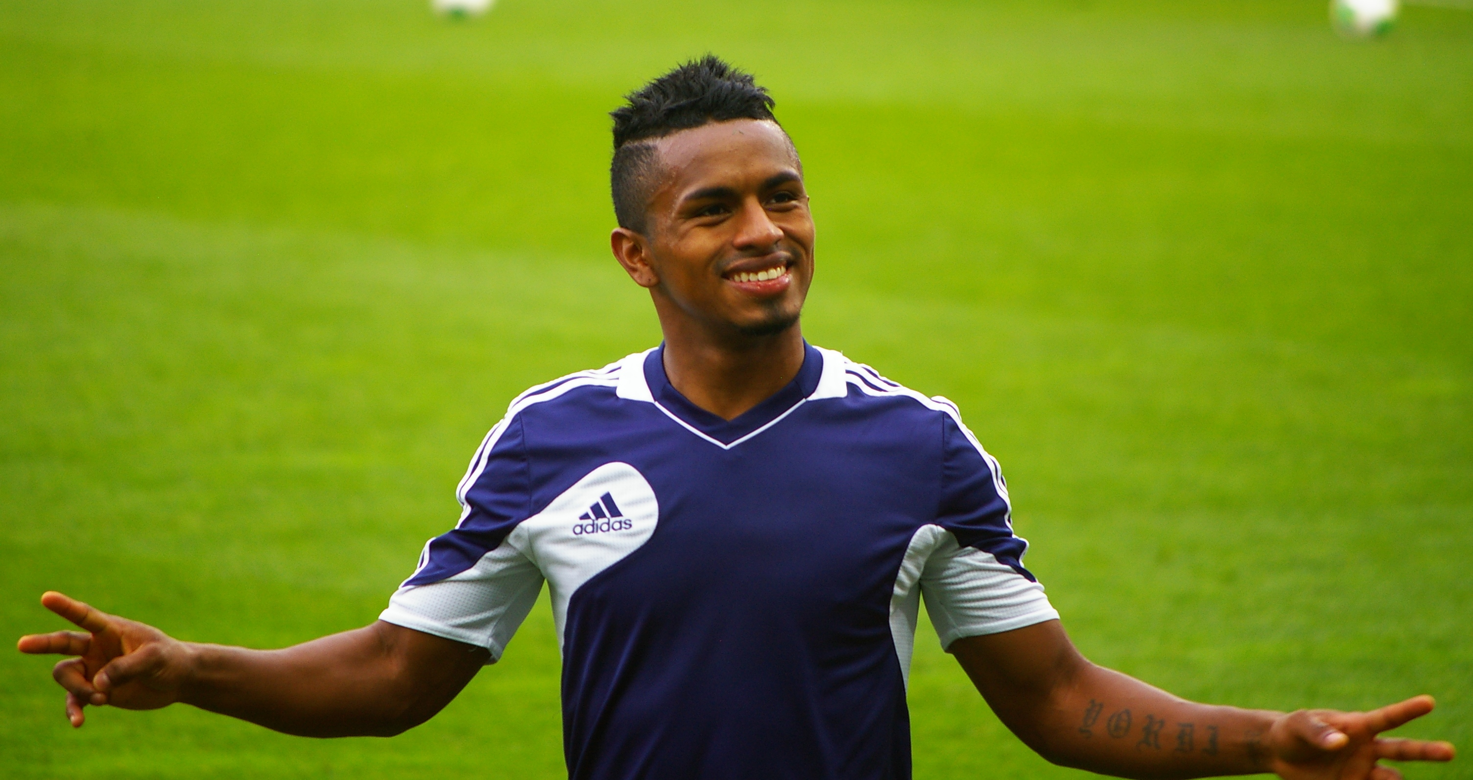 league match Austria 2nd league